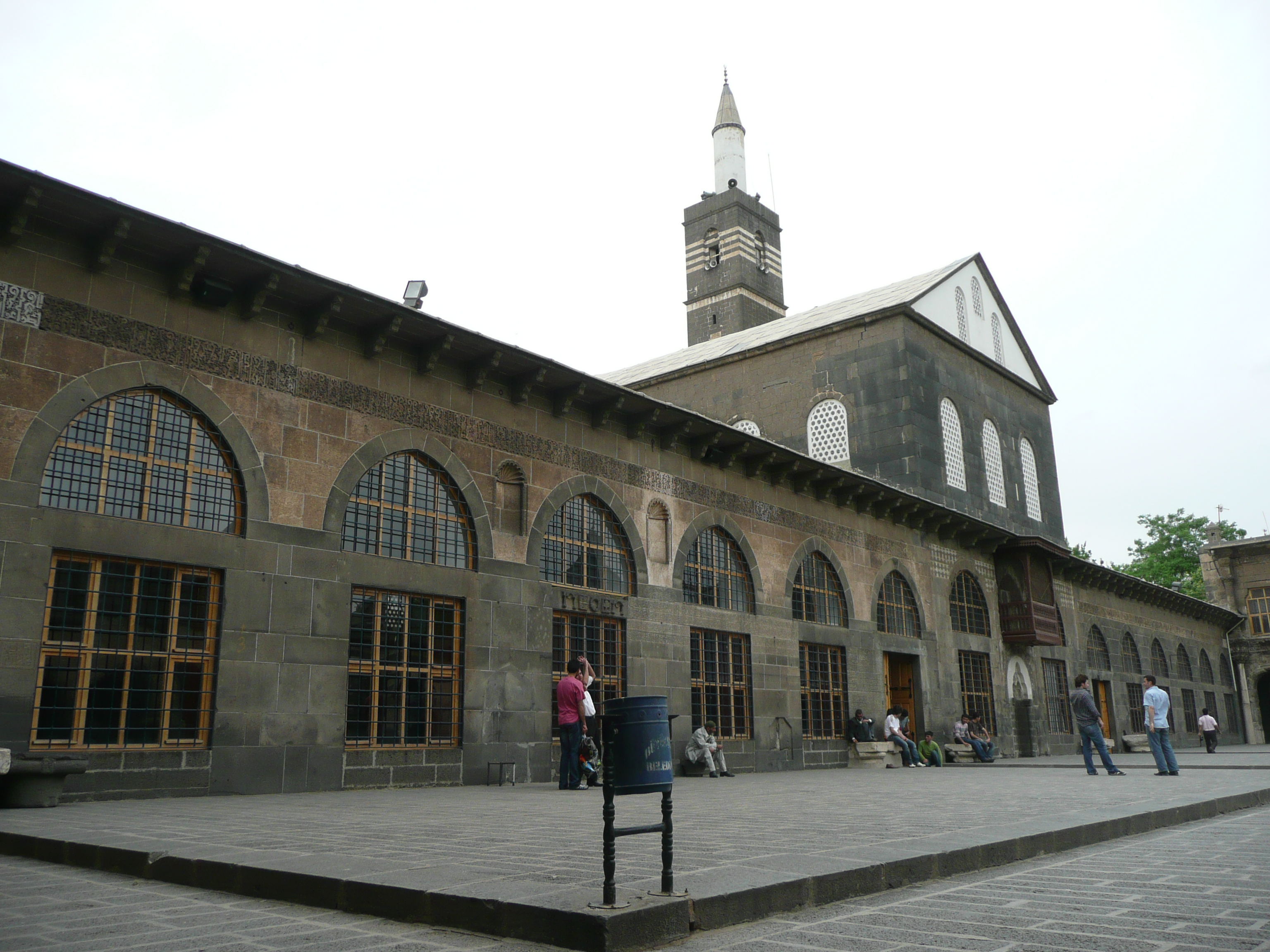 Photographs from Diyarbakir, Turkey